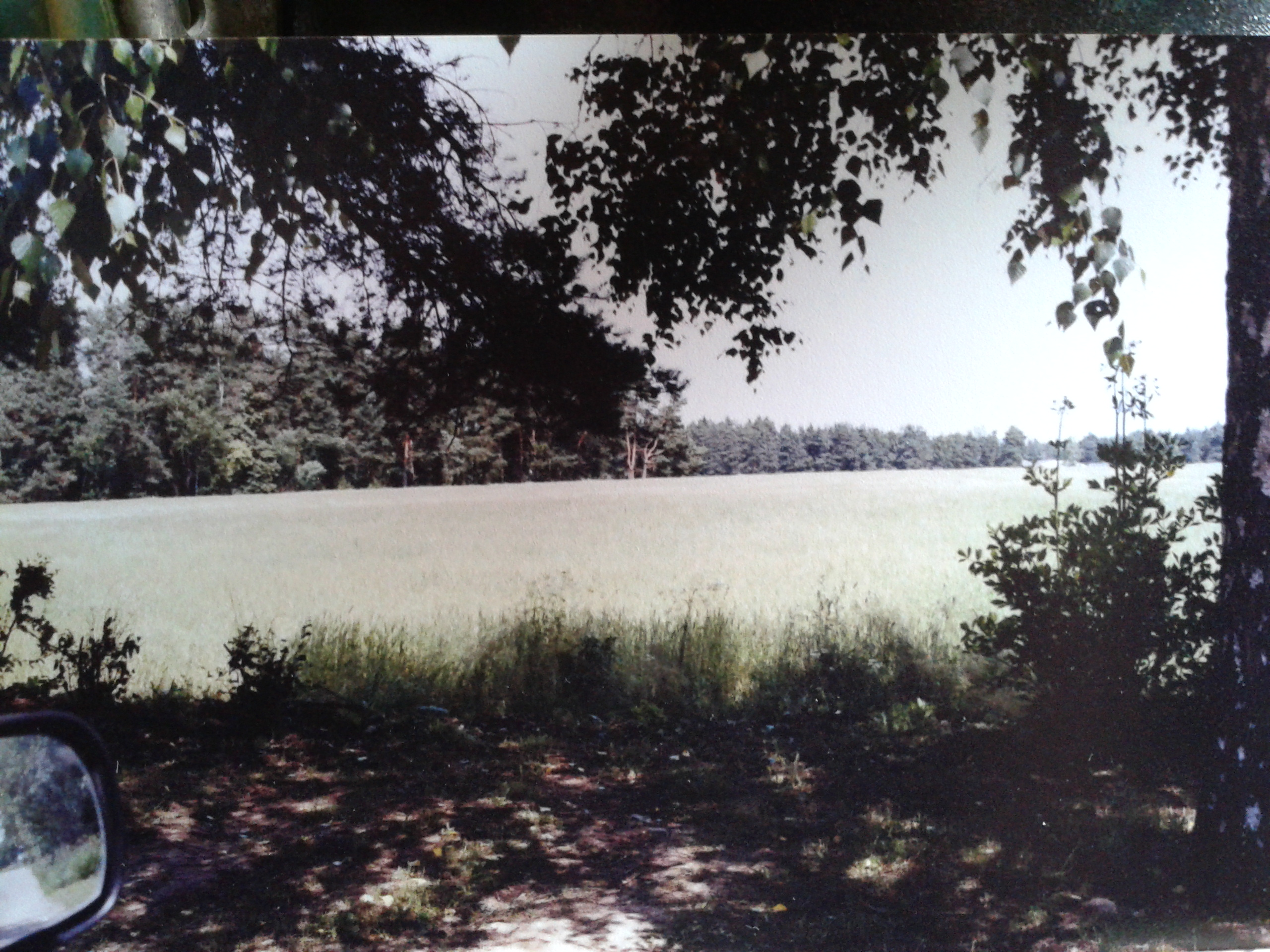 Village Mar'ino under Zvenigorod, view to Salkovo & Porech'e (East)